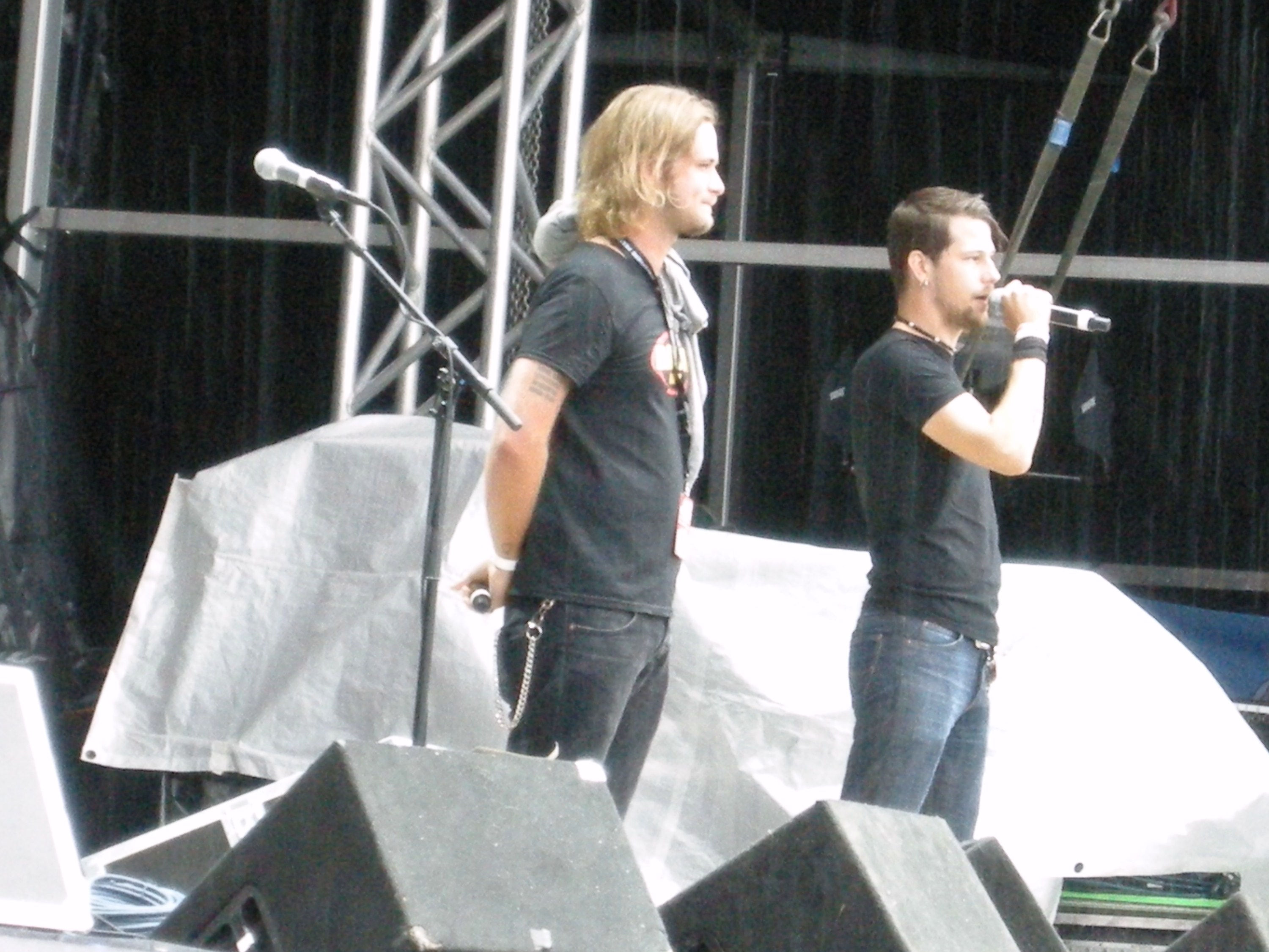 Martin "Bollnäs-Martin" Boman and Peter Kjellin from Swedish radio station Bandit at Sonisphere Stockholm 2010